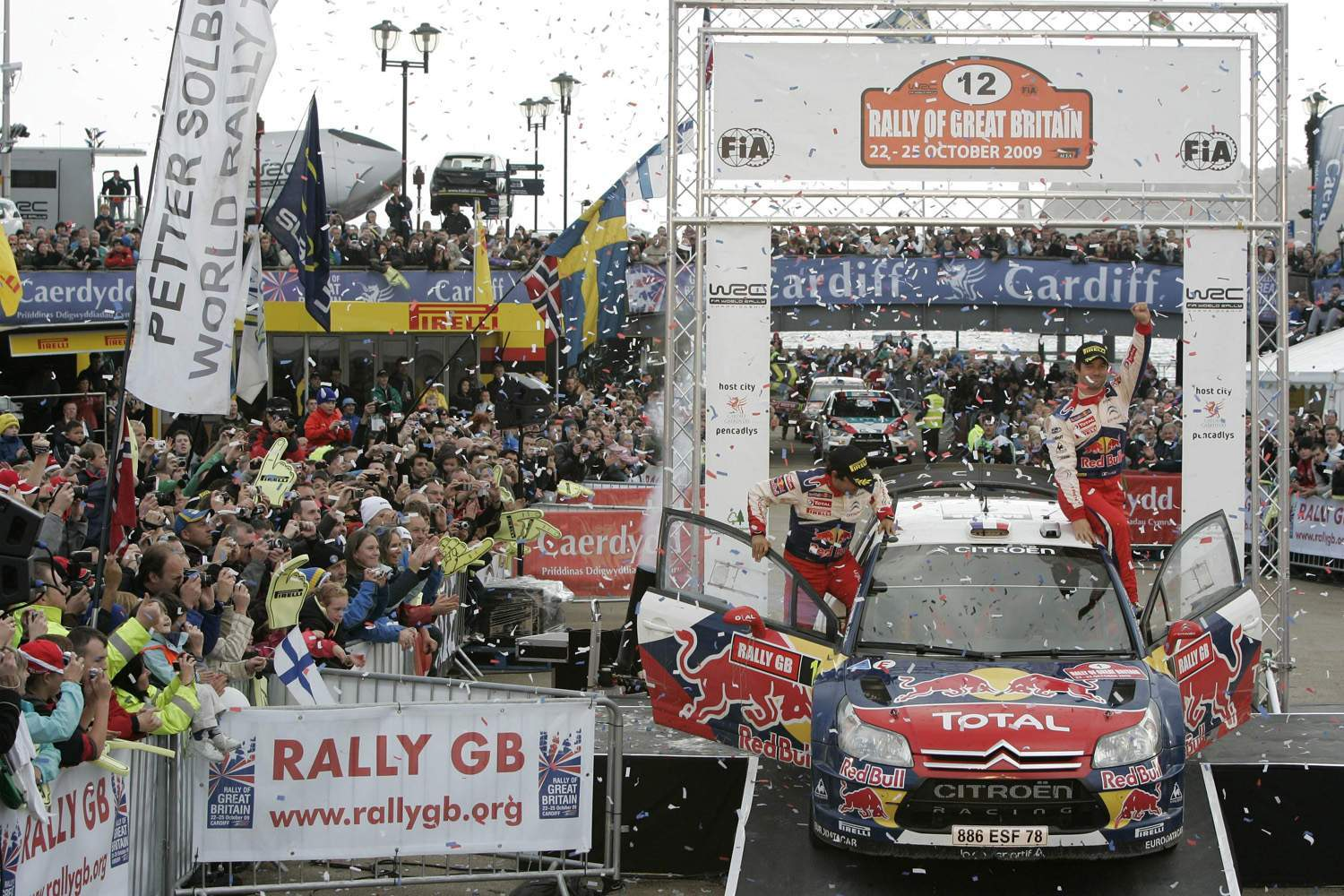 Sébastien Loeb and co-driver Daniel Elena celebrate their win in the 2009 Wales Rally GB.